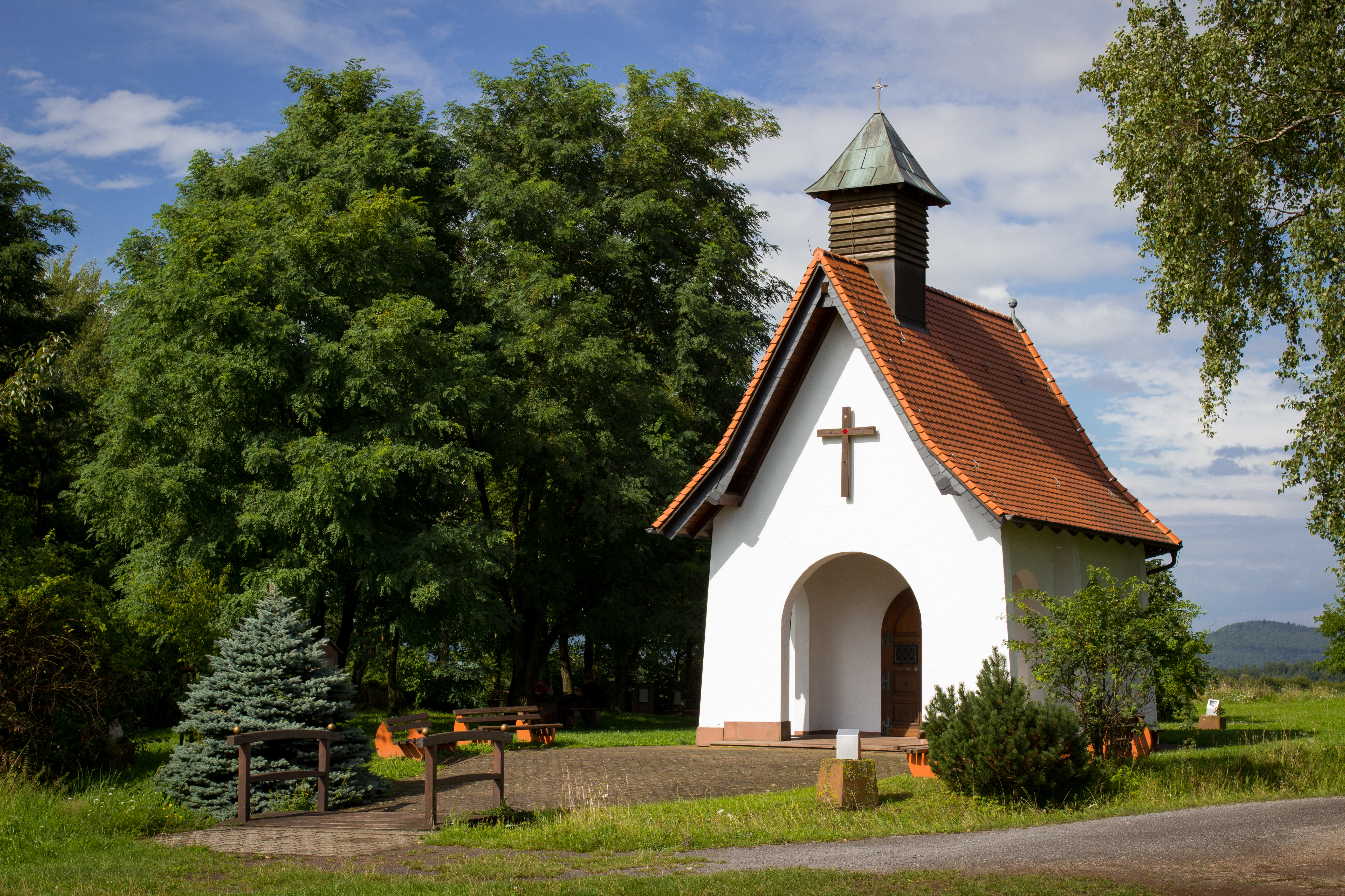 Feldkahl Chapel in Bavaria, Lower Franconia, photographed in Summer 2017